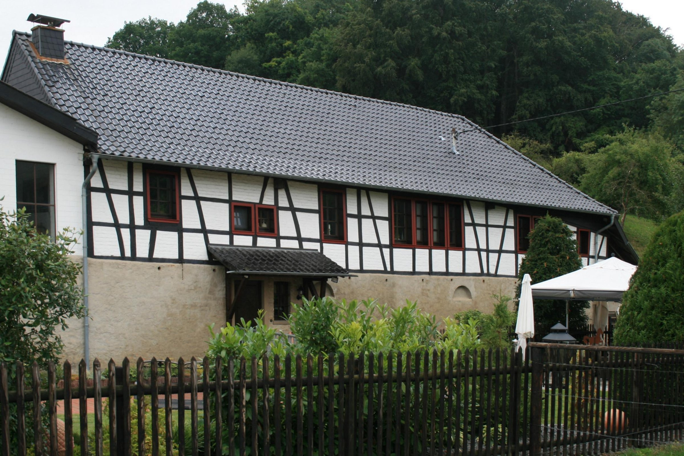 Cultural heritage monument No. 014 in Nideggen